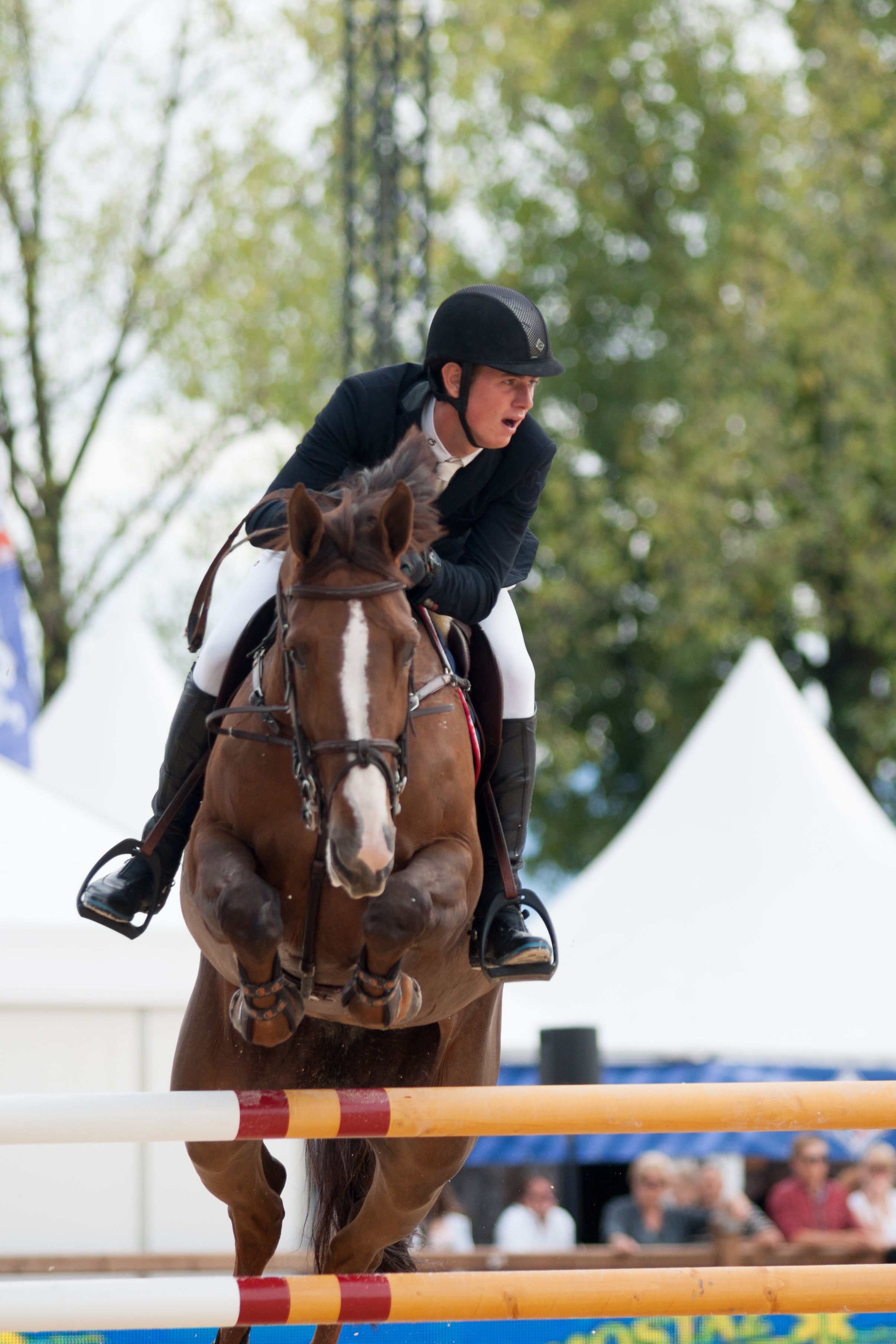 The making of this document was supported by Wikimedia CH. (Submit your project!) For all the files concerned, please see the category Supported by Wikimedia CH. 2013 Longines Global Champions Tour